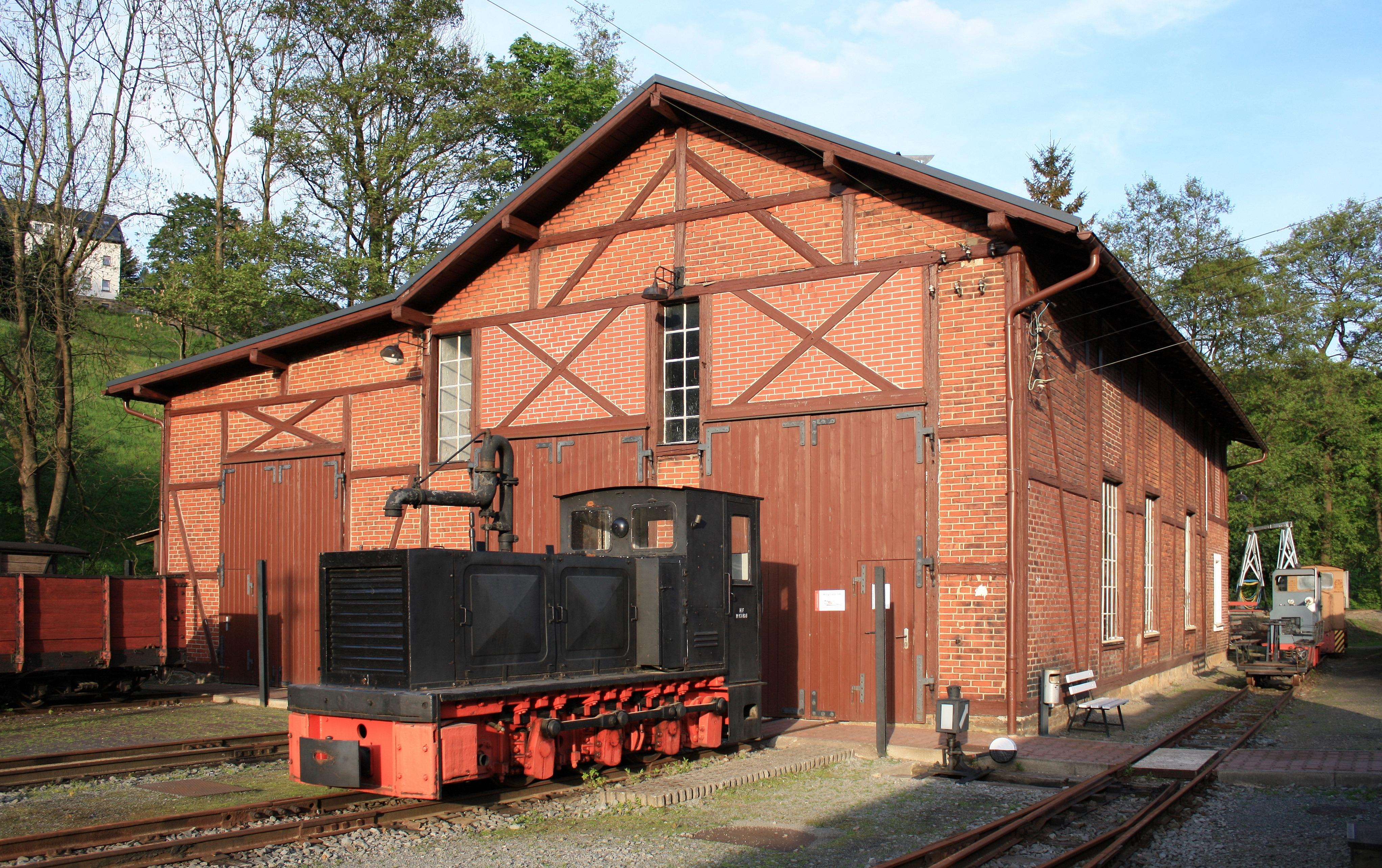 Lokschuppen Rittersgrün